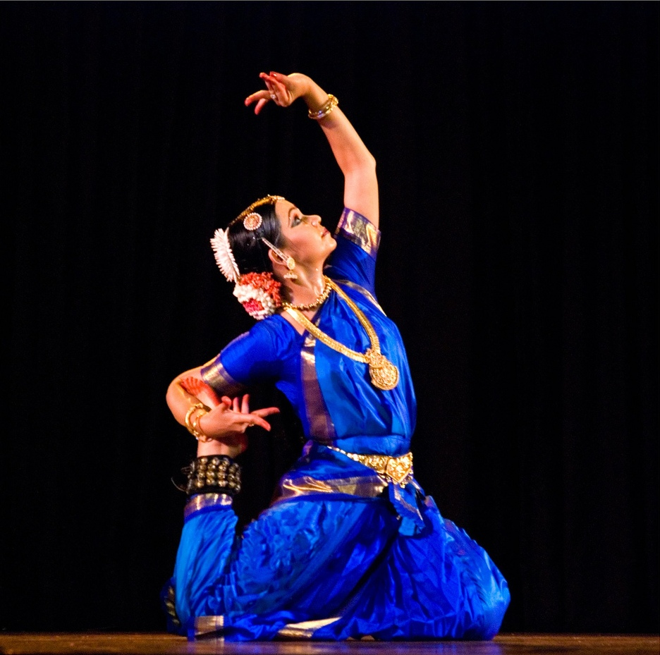 Bharatnatyam Performance by dancer Sneha Chakradhar at India International Center